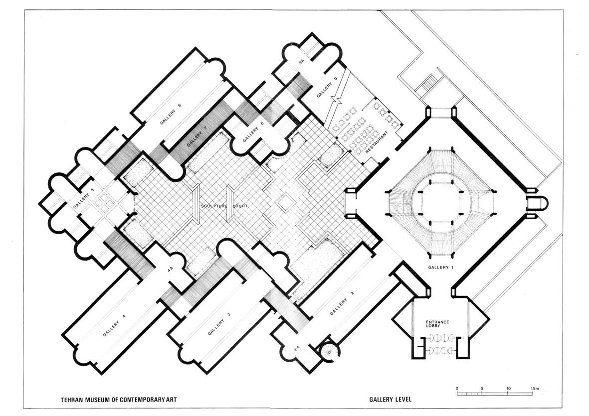 Tehran Museum of Contemporary Art